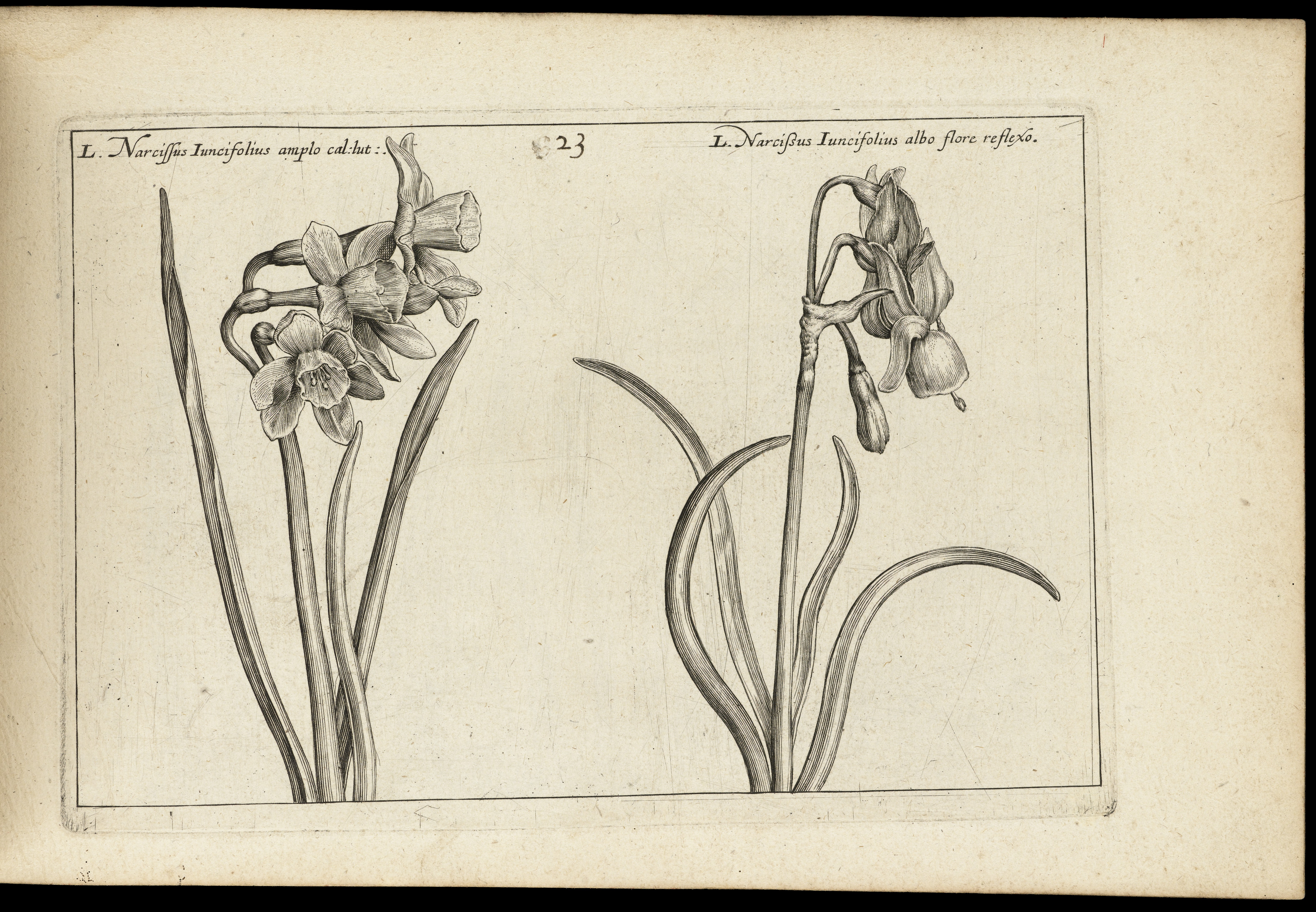 Illustration of Narcissus from Hortus floridus in quo rariorum et minus vulgarium florum icones ad vivam veramque formam accuratissime delineatae / [Crispijn van de Passe] Rare Books